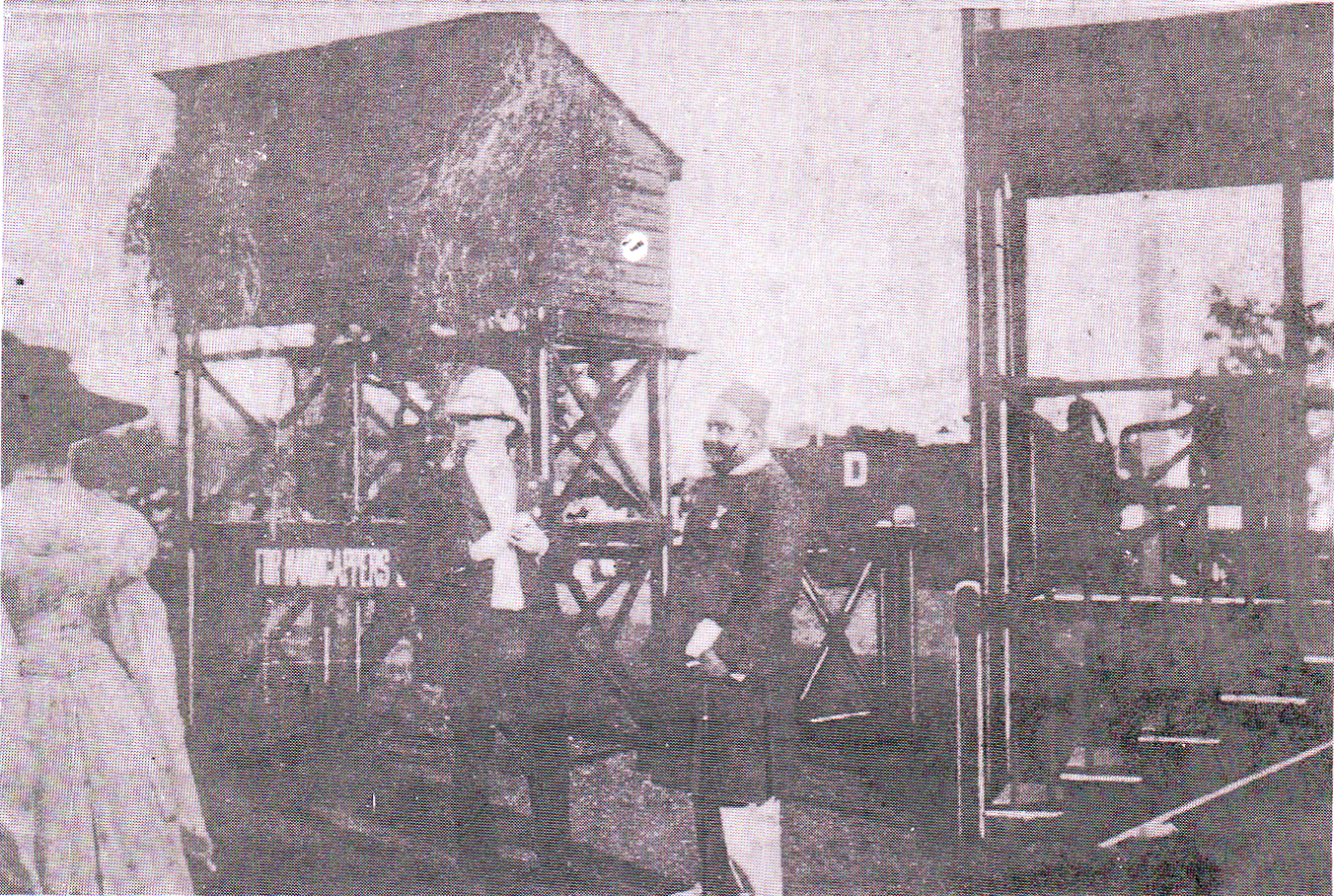 An English Couple with Nabab Sir Salimullah at Ramna Race Course Field.jpg